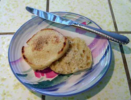 English muffin on a salad plate with table knife.